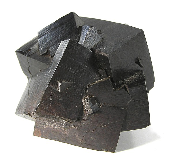 Goethite, Pyrite Locality: Pelican Point Area, Utah County, Utah, USA (Locality at ) An unusually large, striking pseudomorph of goethite that has replaced pyrite crystals. This floater cluster has a fine antique bronze patina. Looks like modern art! 5.9 x 5.9 x 5.3cm